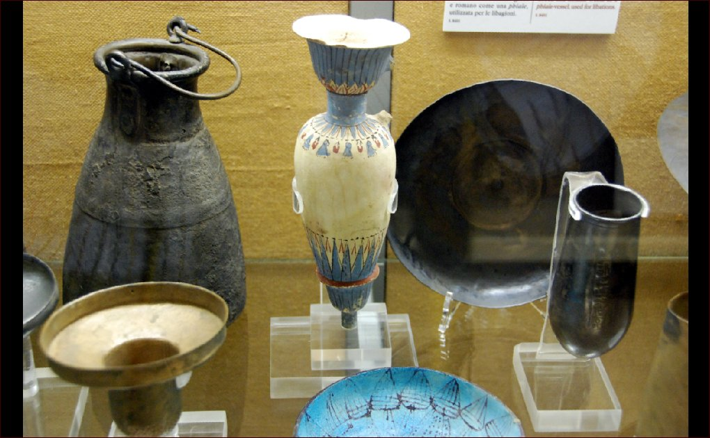 A collection of vases, bowls and jugs from the intact TT8 Theban tomb of Kha. (Museo Egizio, Turin)